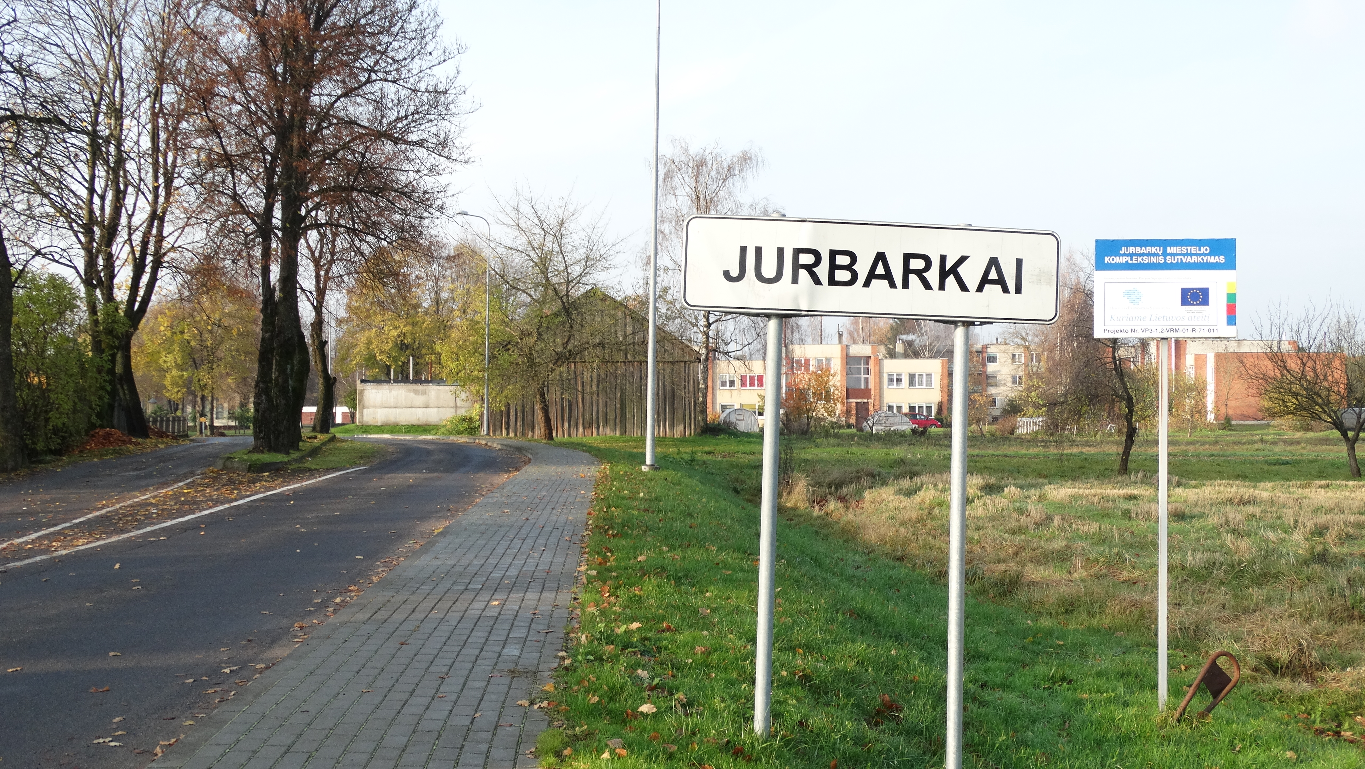 Jurbarkai, Jurbarkas District, Lithuania